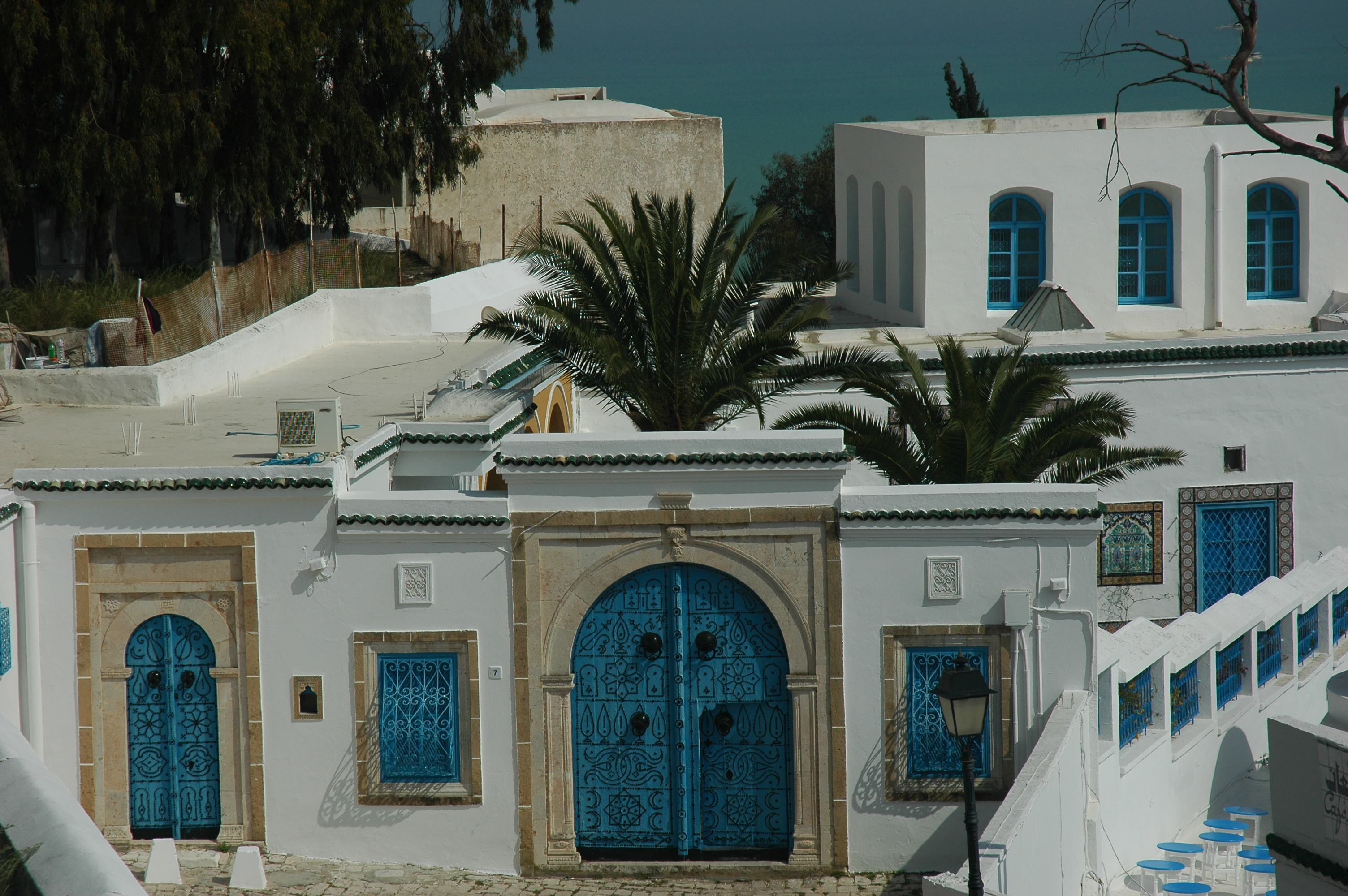 Sidi Bou Said in Tunisia